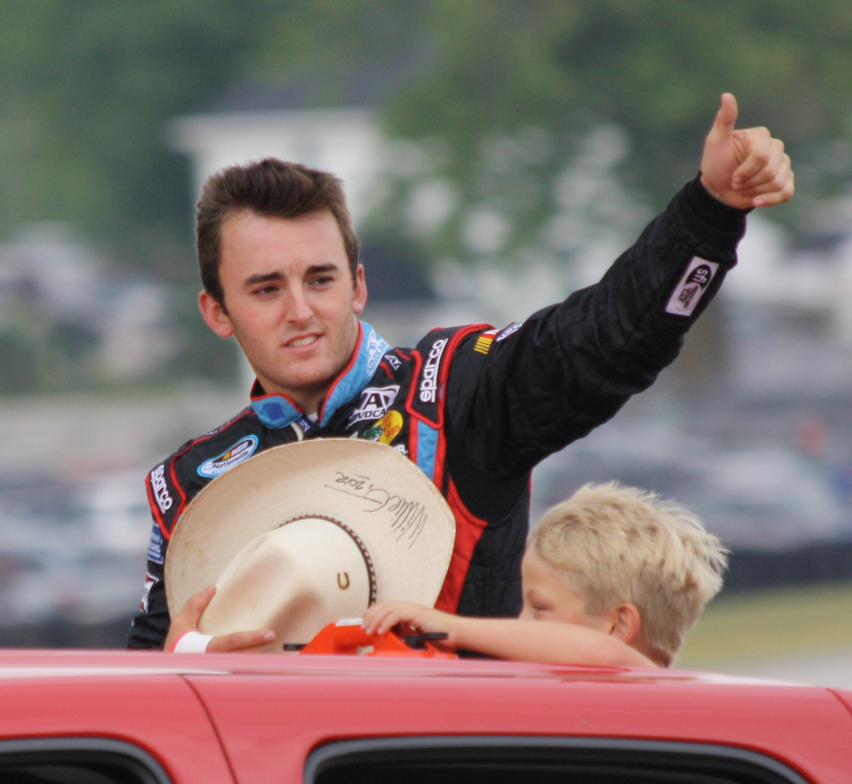 NASCAR driver Austin Dillon and Wesley Dyckman during driver's introductions at the 2012 Sargento 200 Nationwide Series race at Road America.